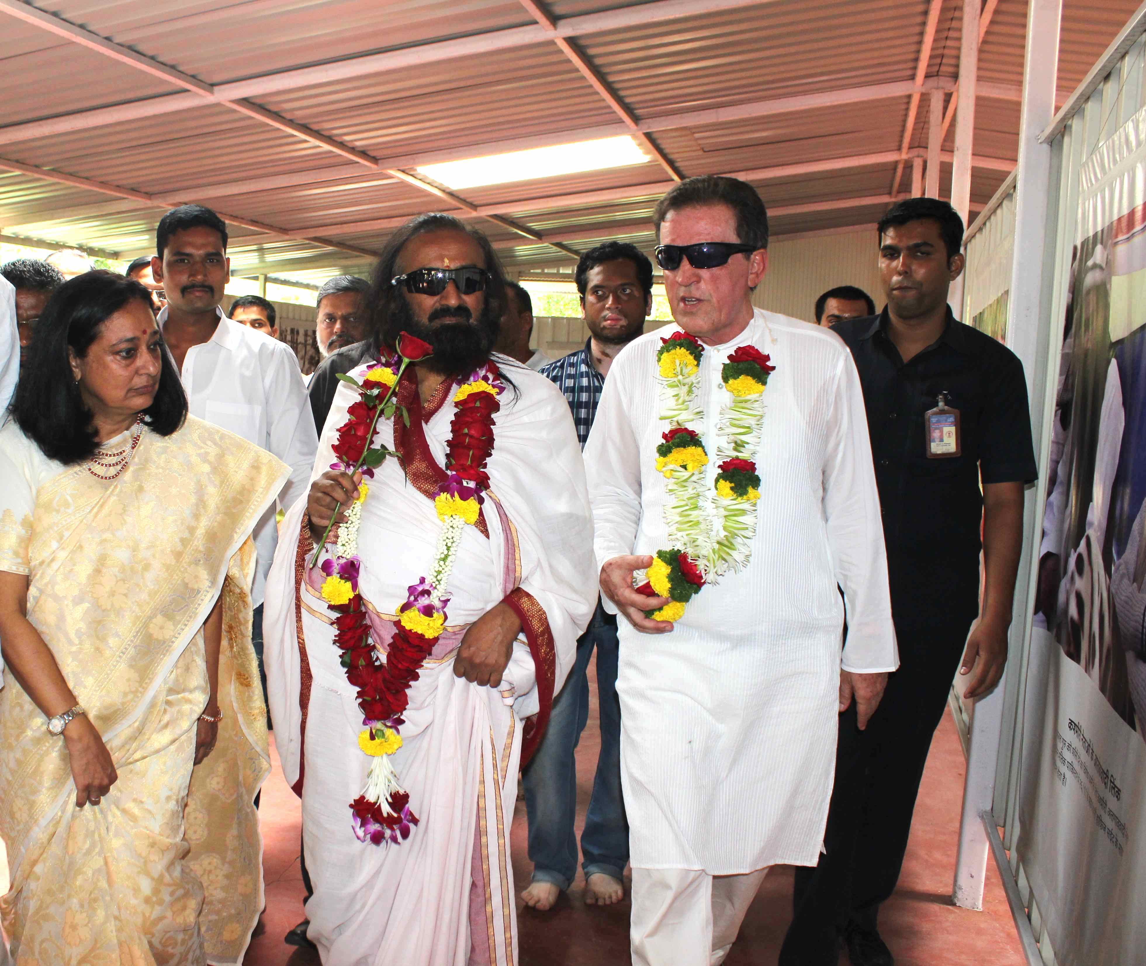 Sri Sri Ravishankar with Francois Gautier at the inauguration of Museum